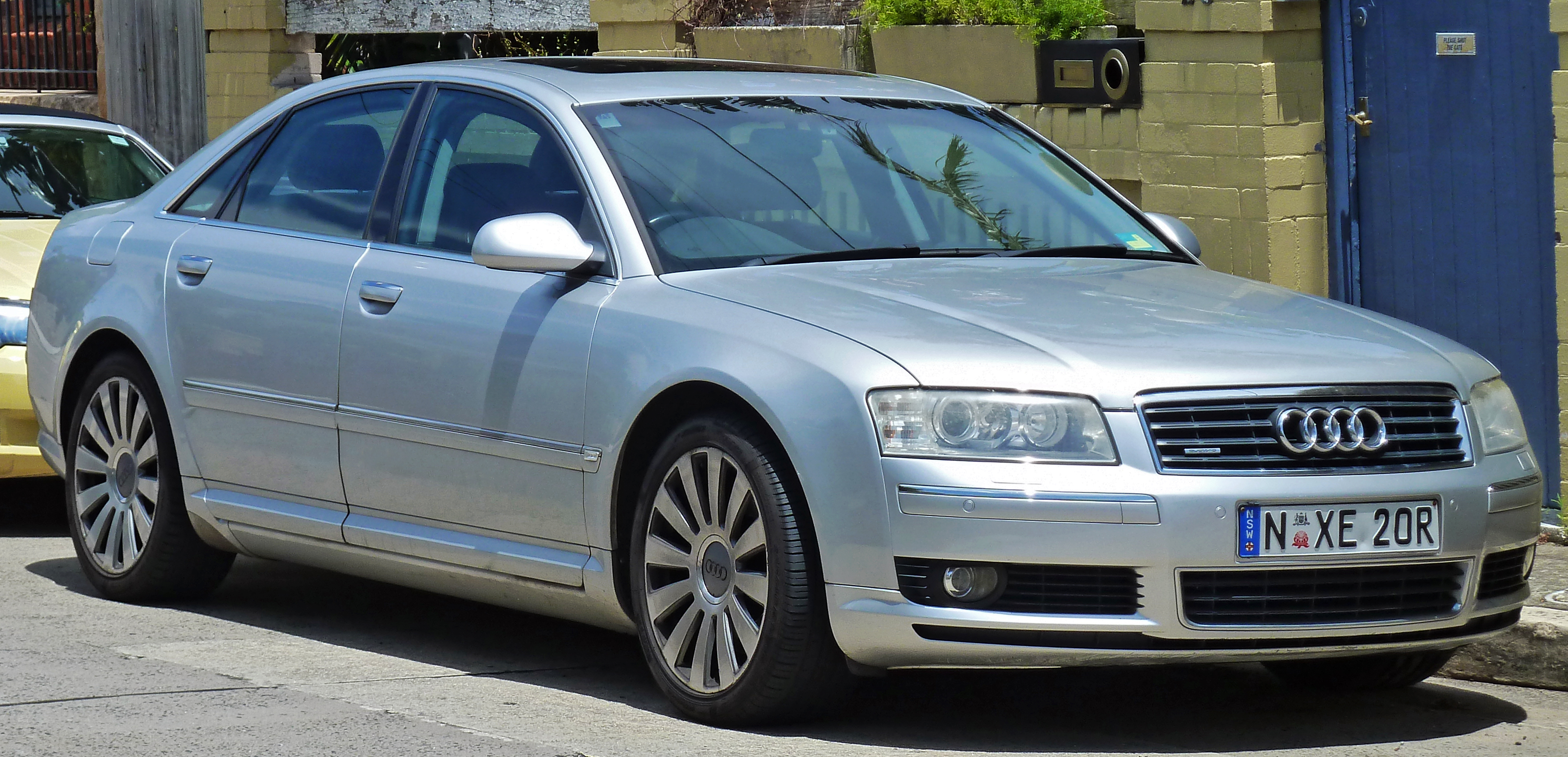 2003–2005 Audi A8 (4E) 4.2 quattro sedan. Photographed in Vaucluse, New South Wales, Australia.